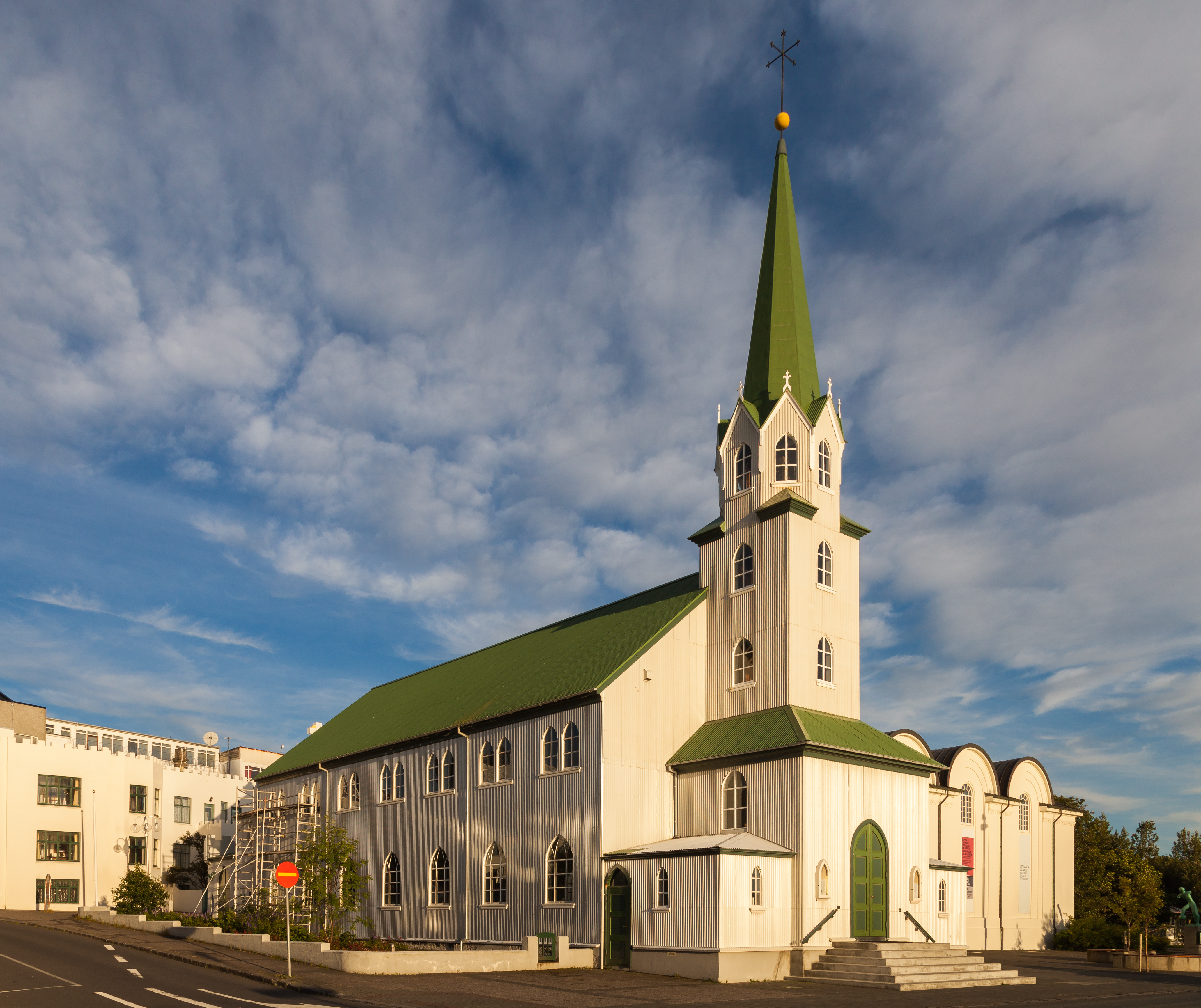 Reykjavik Free Church, Reykjavik, Capital Region, Iceland